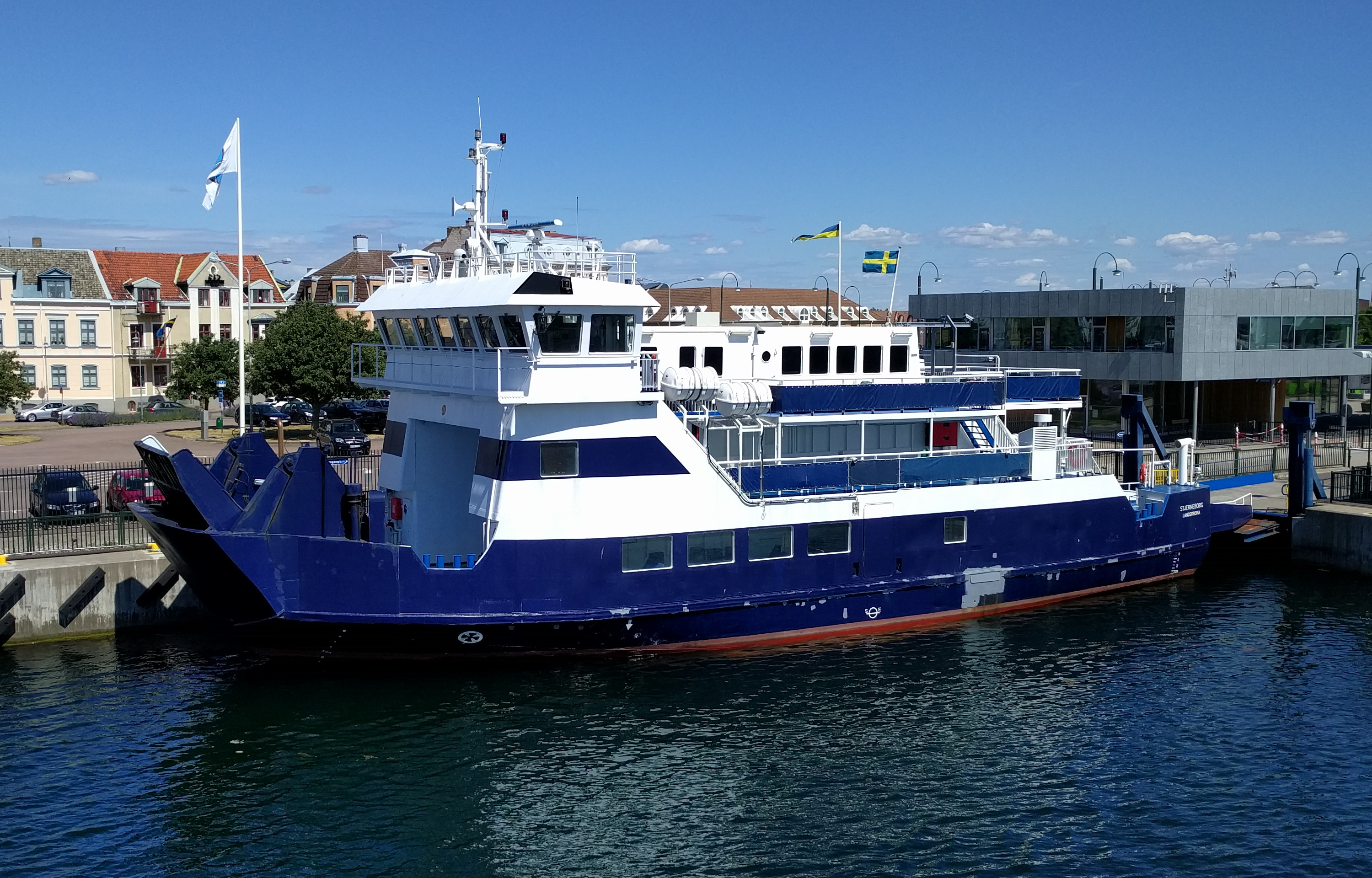 Passenger ship MS Stjerneborg in Landskrona harbour 2016